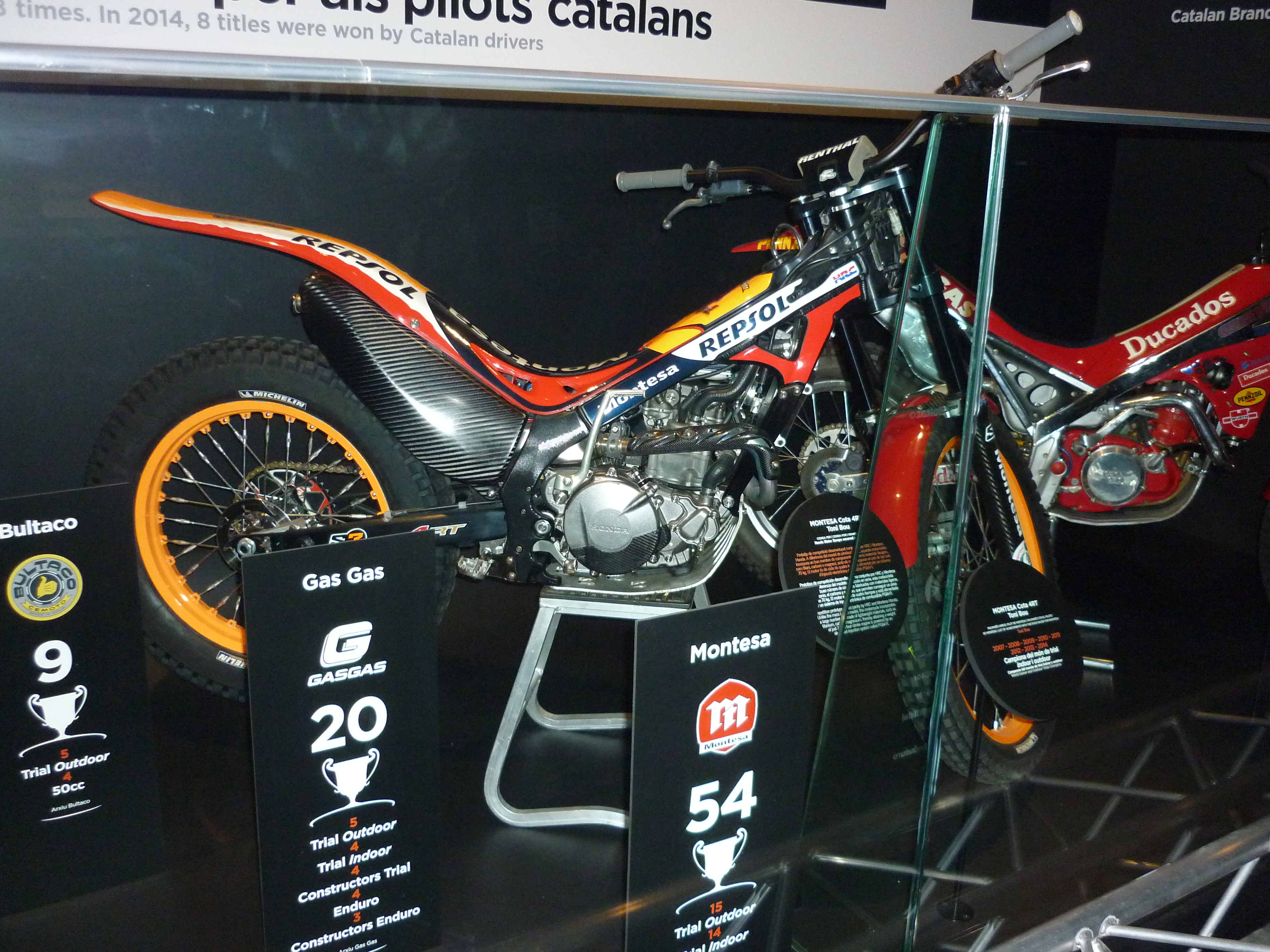 Montesa Cota 4RT, ridden by Toni Bou circa 2013